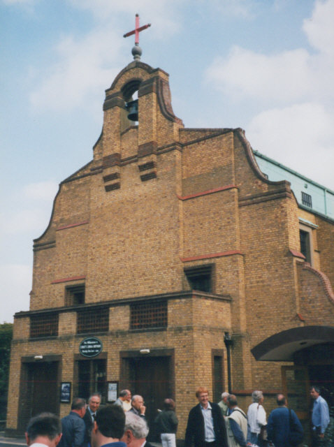 Church of the Good Shepherd, Carshalton Beeches. A Grade II listed Anglican church, built in 1930 by Martin Travers and T F W Grant, and often described as being in the 'Spanish mission' style. It was extended in the early years of the present century to offer community facilities.